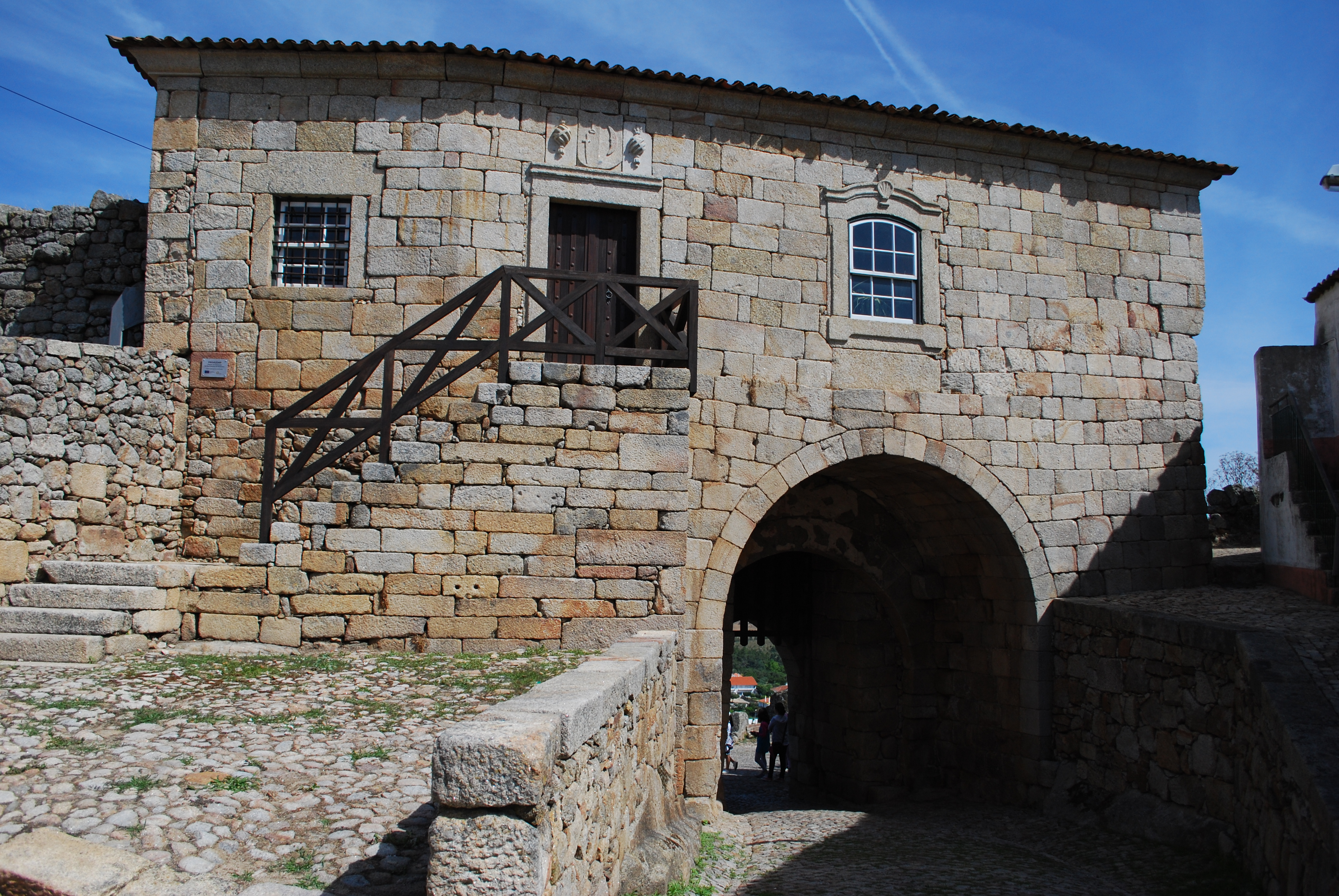 This file was uploaded for Wiki Loves Monuments in Portugal with the unique identifier 73056.